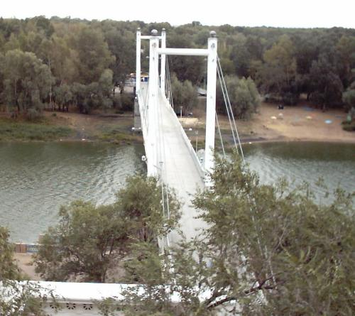 Bridge over the Ural river, Orenburg (Russia)